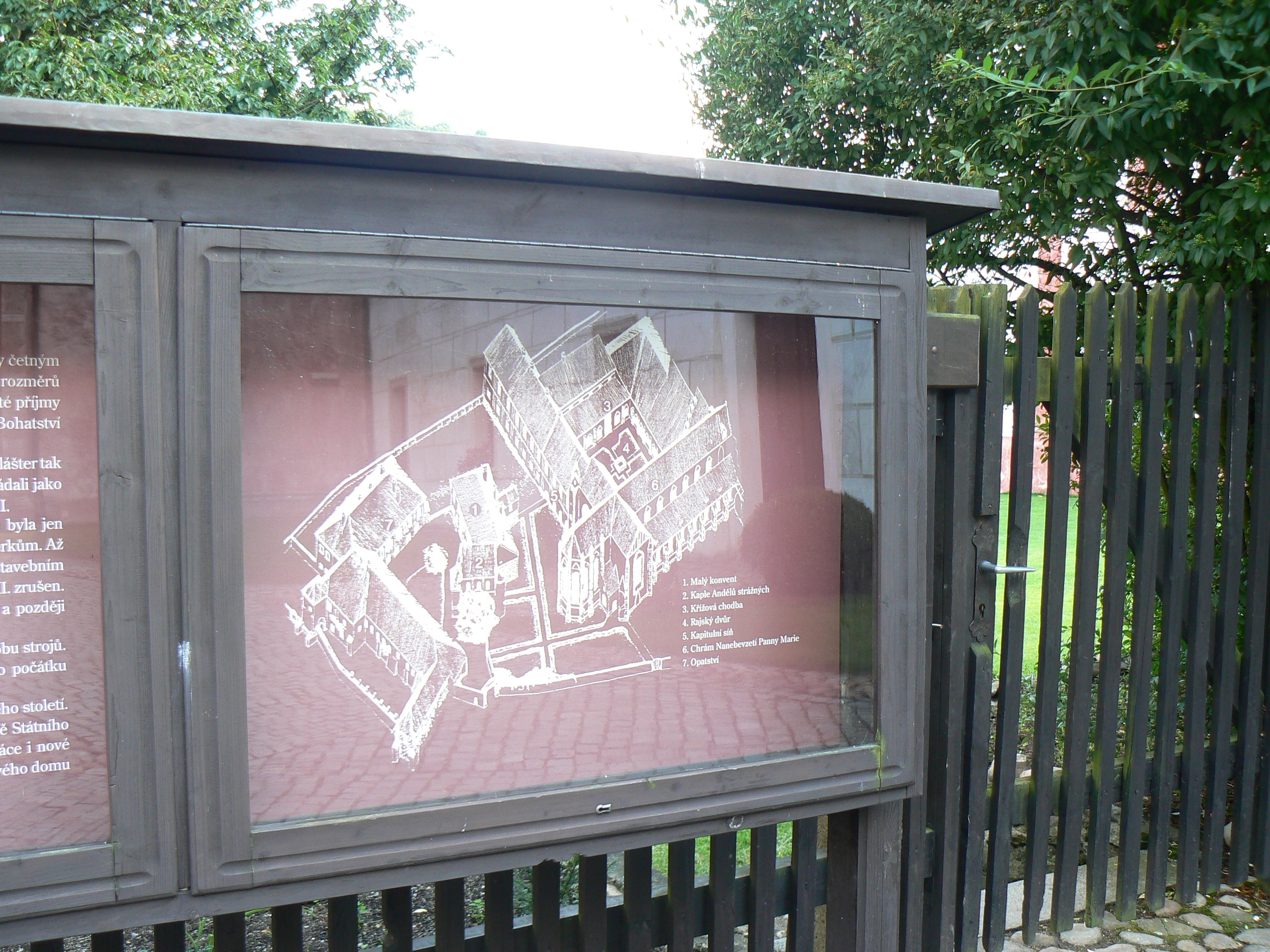 Zlatá koruna Monastery